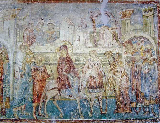 Dormition of the Theotokos Church in Matejče, Macedonia (1348-1352), The Cycle of the Akathistos Hymn of the Virgin, VI oikos